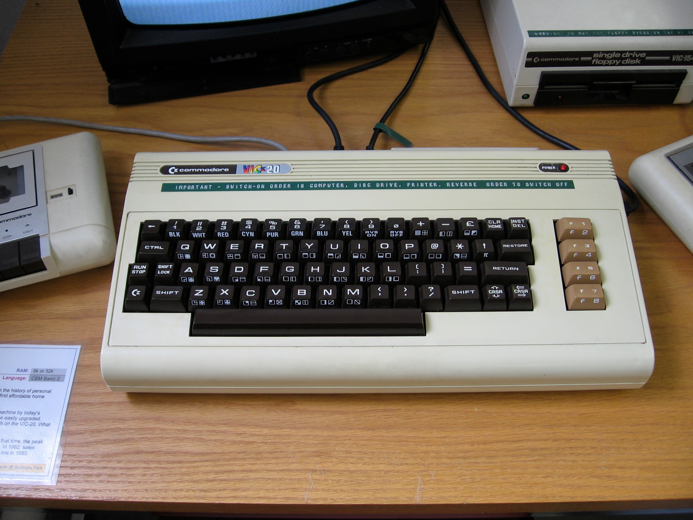 Commodore VIC-20 at National Museum of Computing, Bletchley, UK.